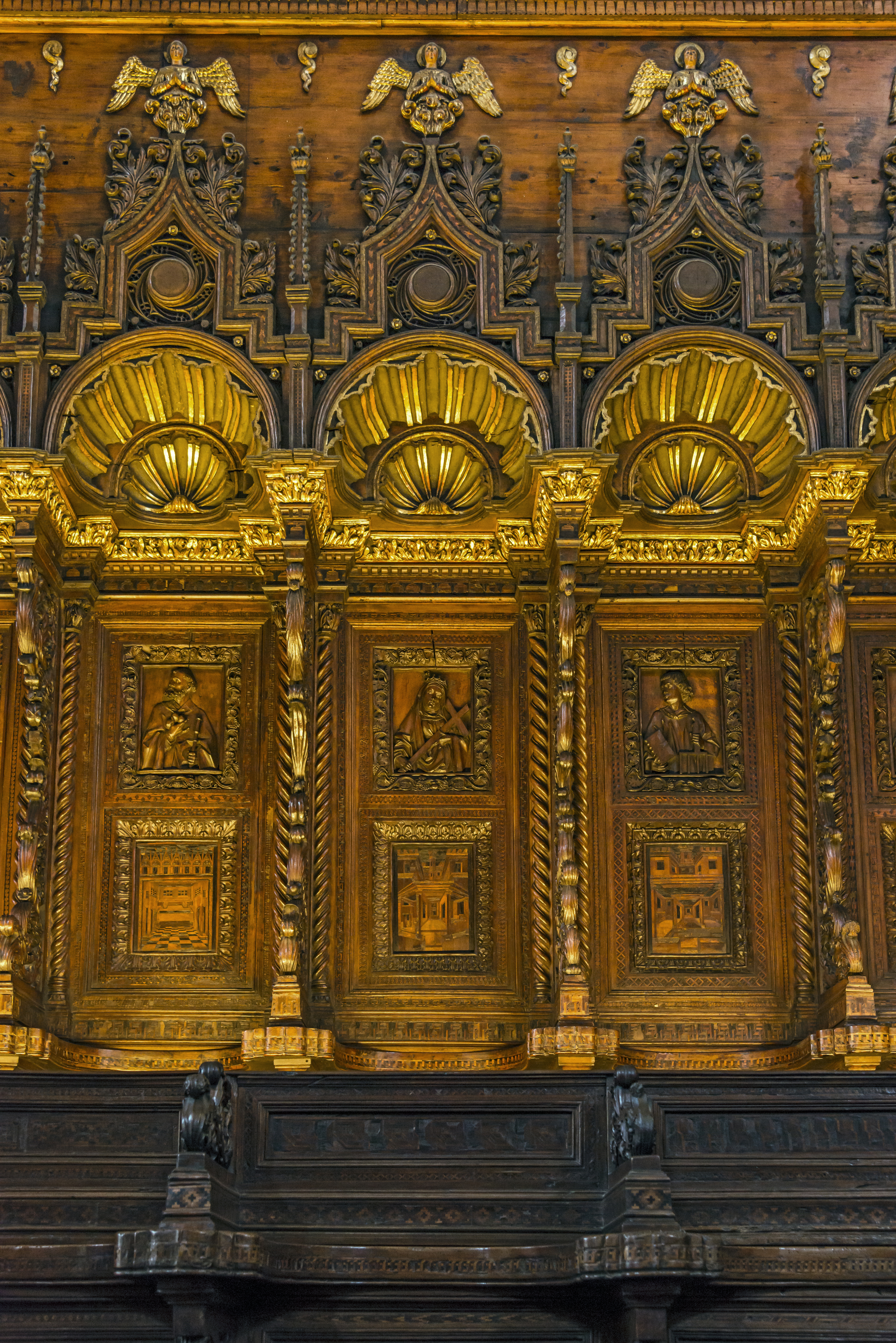 The Basilica di Santa Maria Gloriosa dei Frari. The 120 stalls of the choir of the friars by Marco Cozzi. Fifty high stalls, decorated with reliefs of saints. Here Saint Nicolas, St. Helena and St. Laurent.